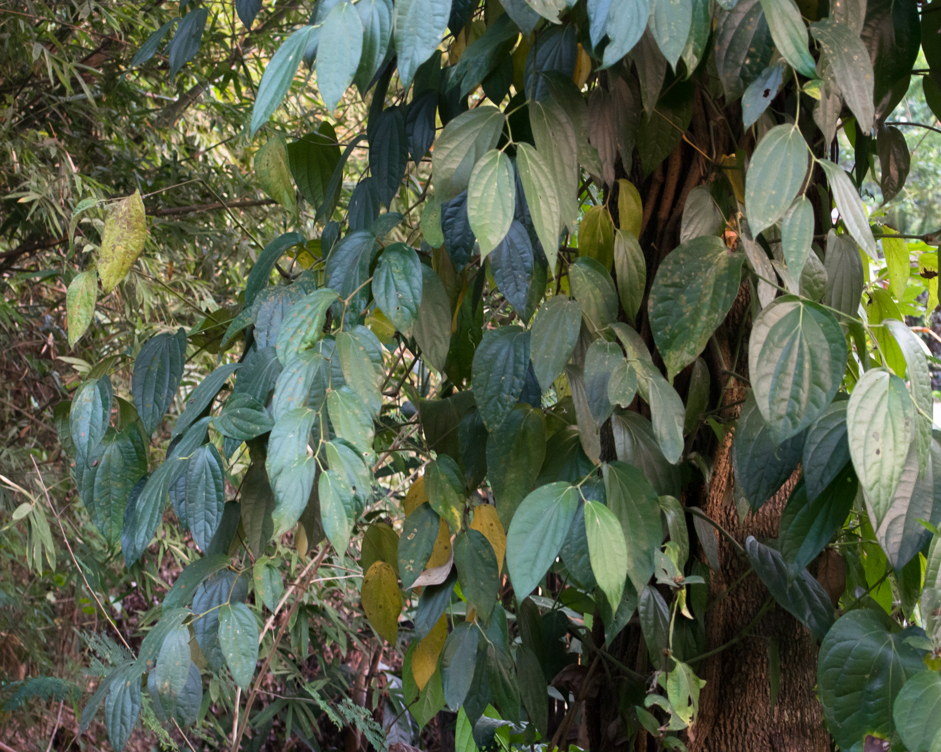 Sakhan (Thai script: สะค้าน) or Chakan (Thai script: จะค้าน) is Piper interruptum, a vine of which the woody parts are used in northern Thai cuisine for its slightly bitter and spicy flavour. It also reduces the "stickiness" of the latex of jackfruit when the jackfruit is used whole such as in kaeng kanun (northern Thai jackfruit curry).